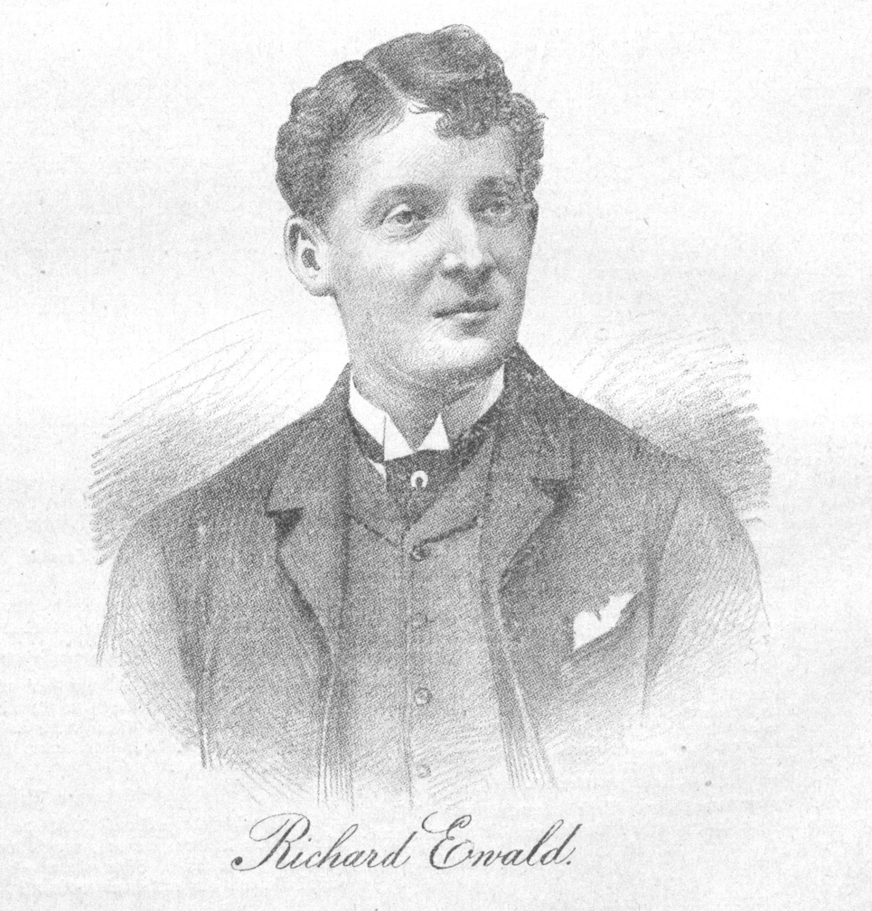 Portrait of Richard Ewald (1851-??), Austrian actor, singer and regisseur.